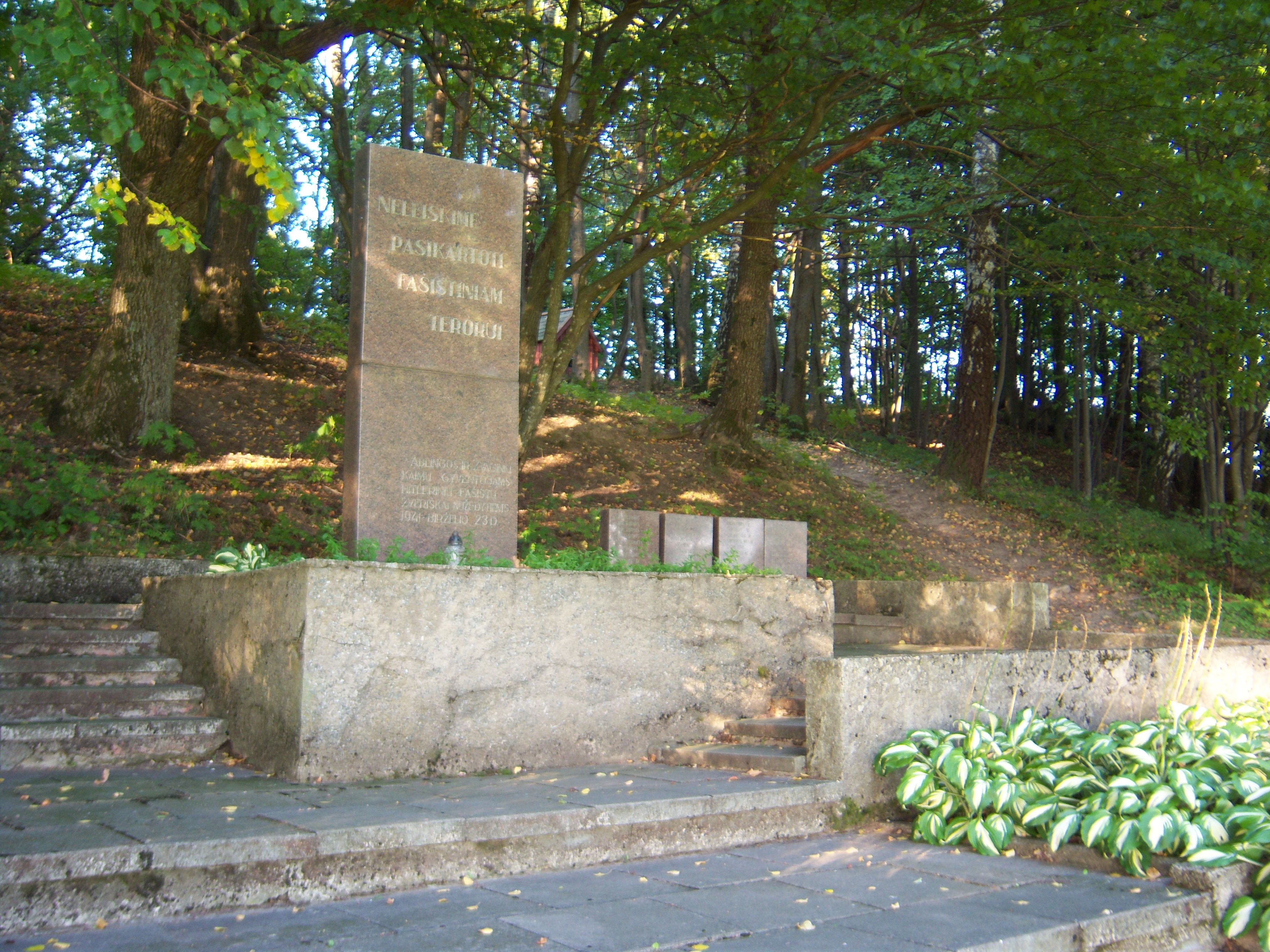 War memorial monunument in Ablinga, Klaipėda District. Lithuania